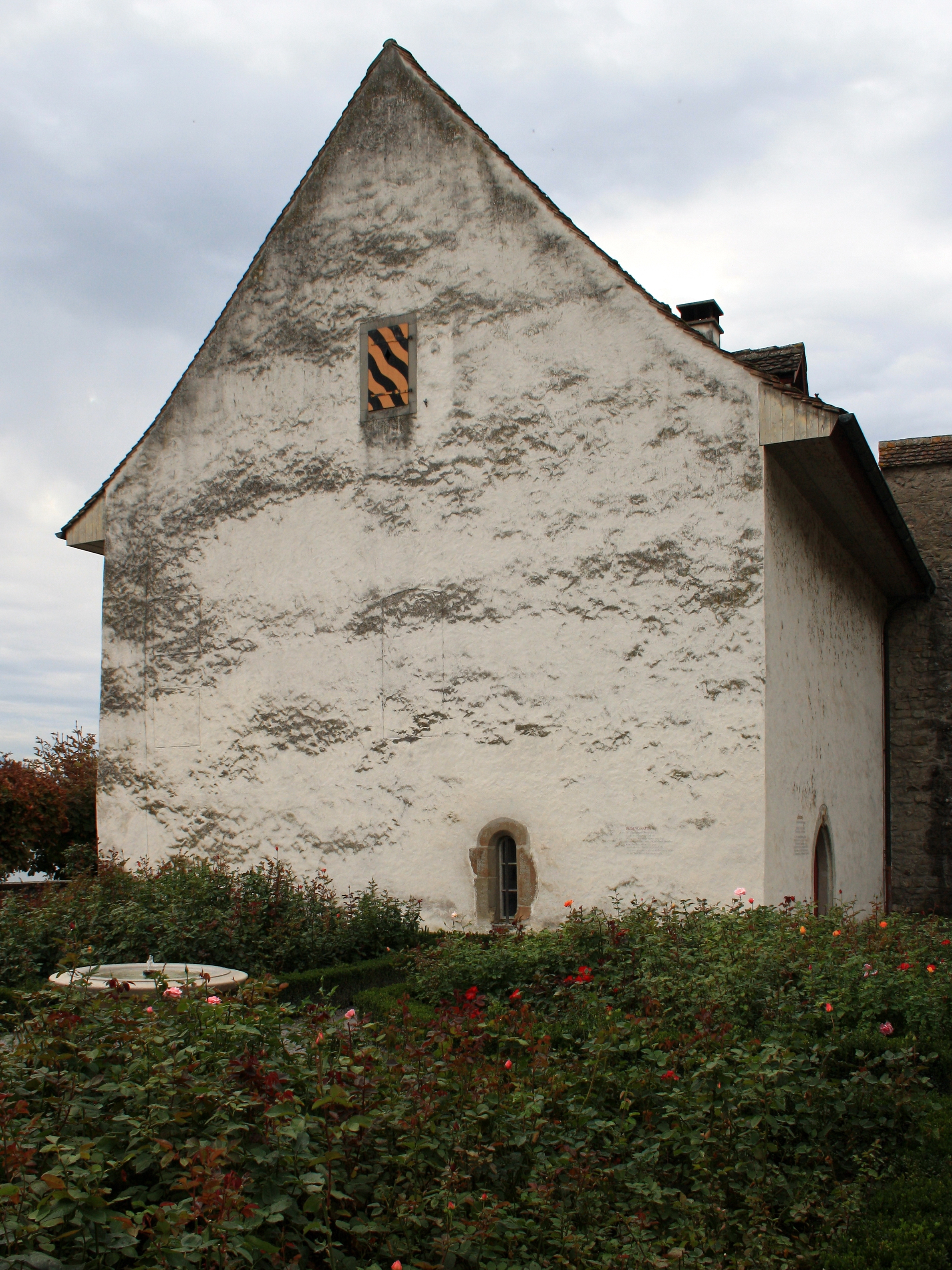 Rapperswil (SG) : Einsiedlerhaus as seen from the east.